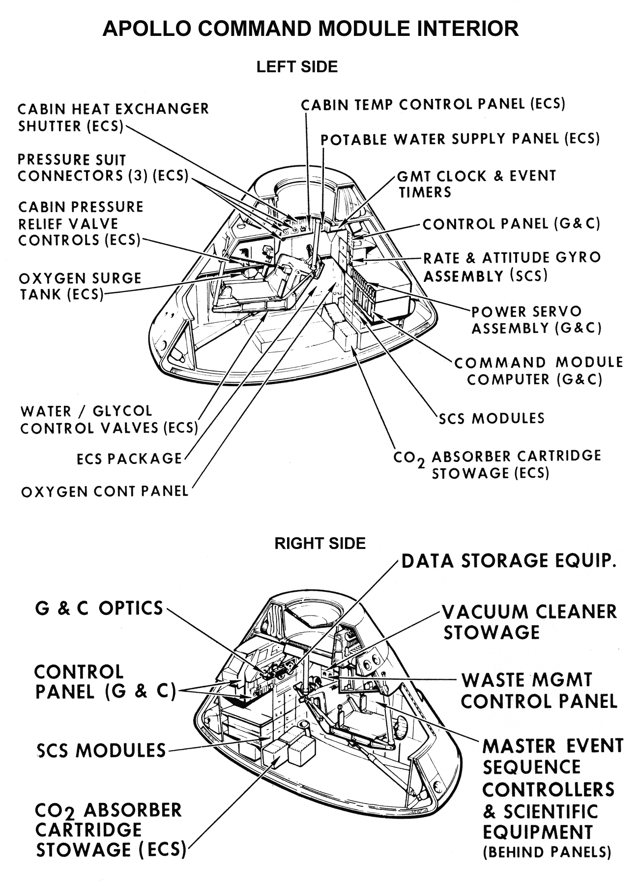 Apollo command module interior. "From Apollo Spacecraft & Systems Familiarization"